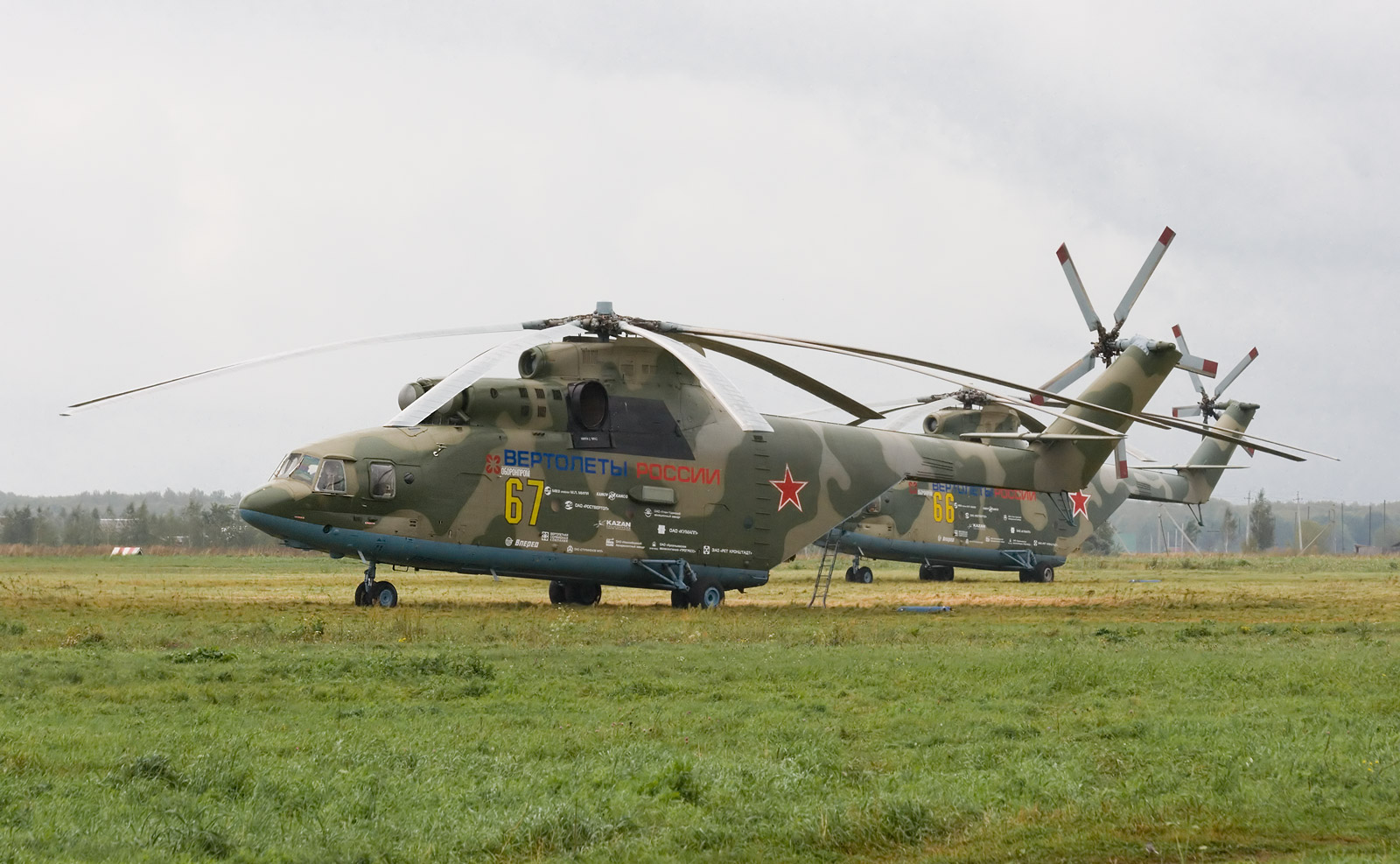 Mil Mi-26